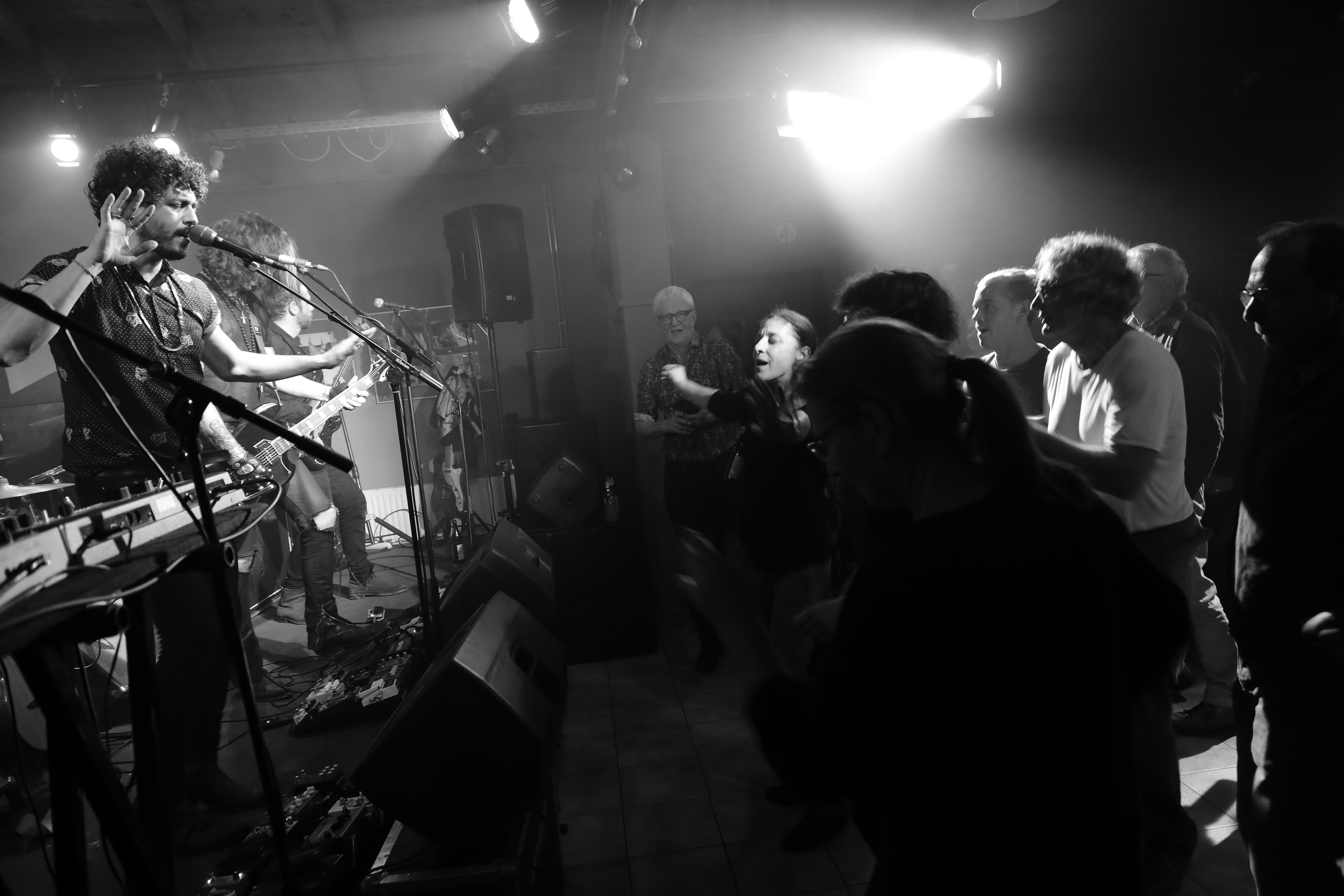 XIXA from Tucson in concert at Club W71, Weikersheim. It´s the last show of their Eurotour with 25 shows in 2019.